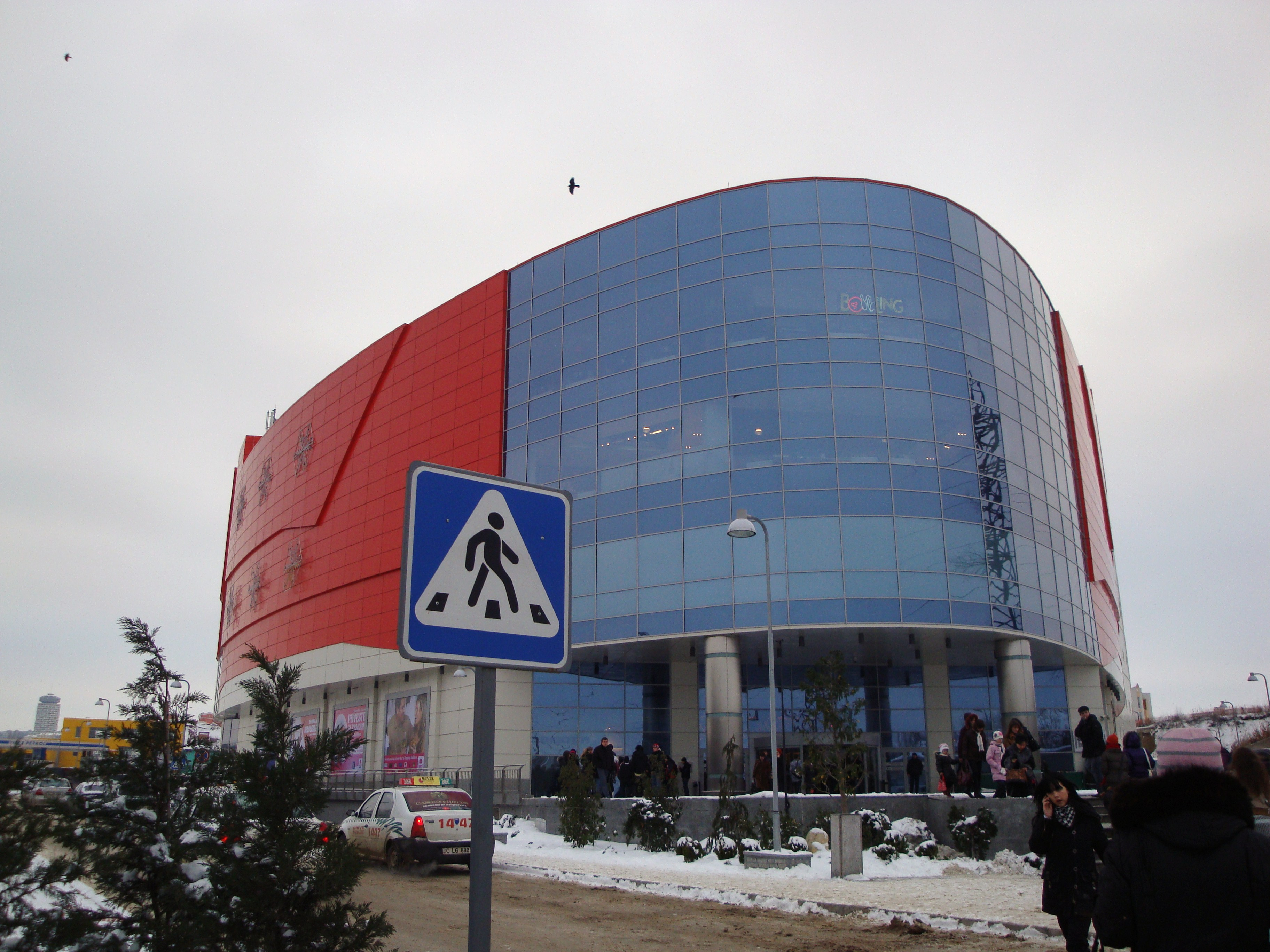 Malldova shopping building in Chisinau, Moldova